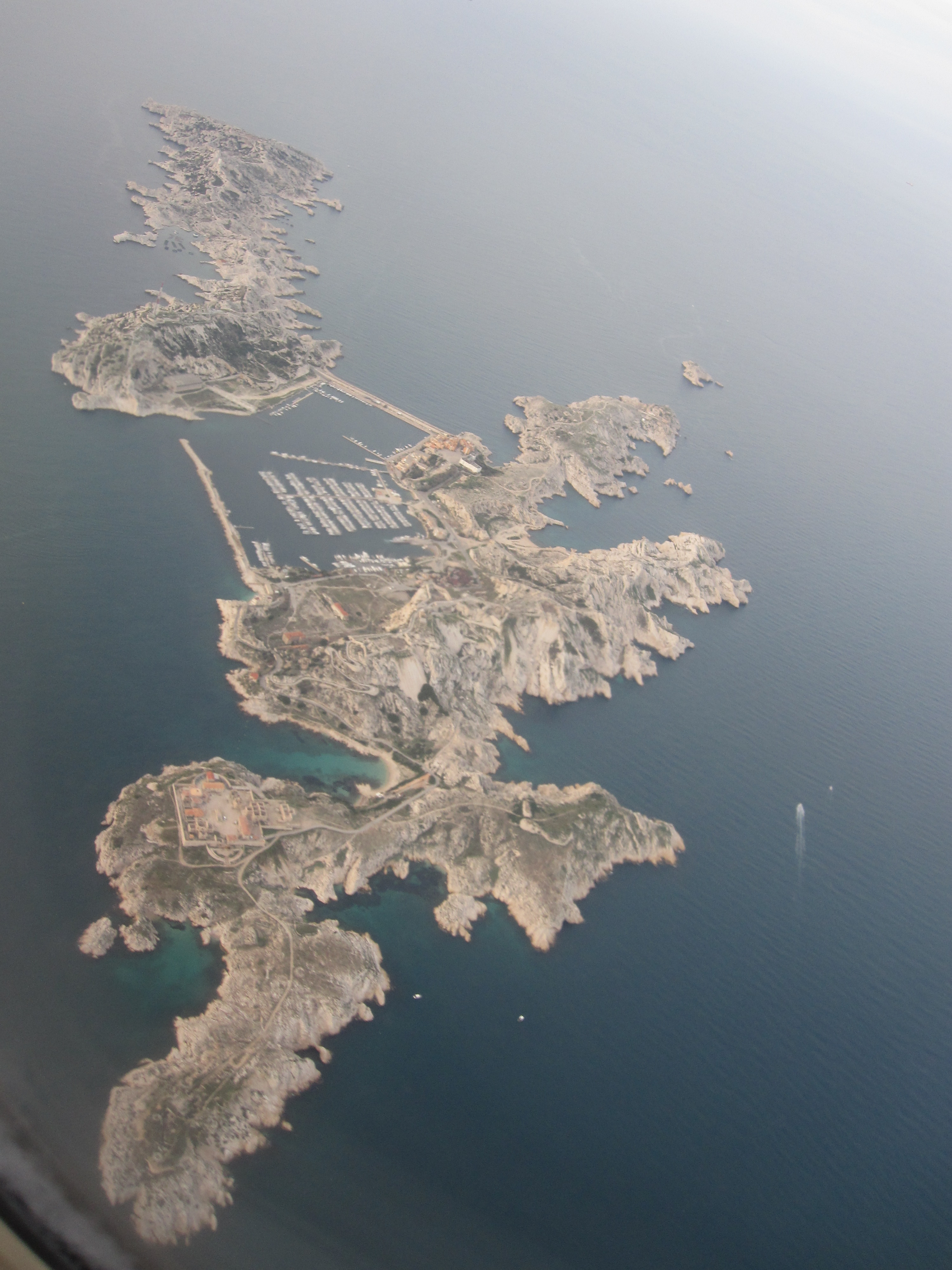 The Frioul archipelago (except If island) seen from an aeroplane landing at Marseille-Provence airport, France.